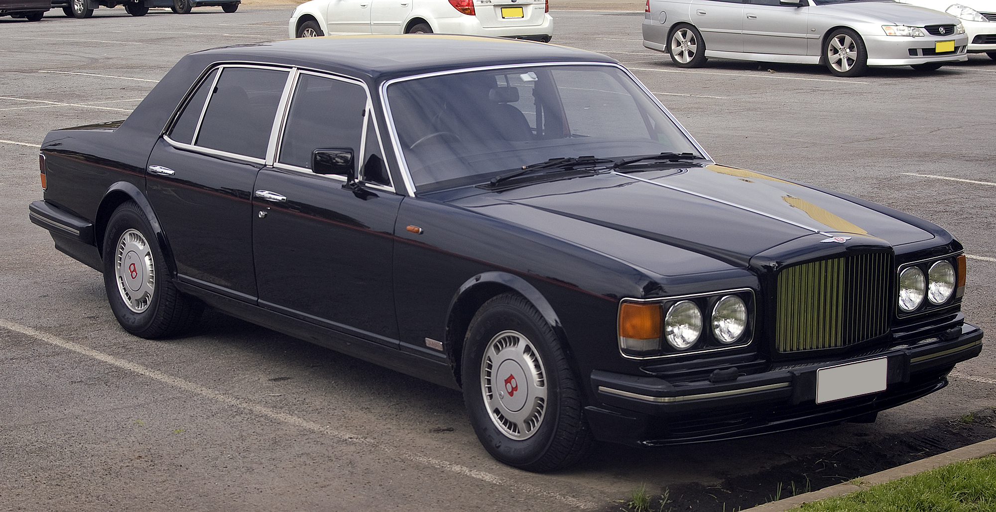 Bentley Turbo R.